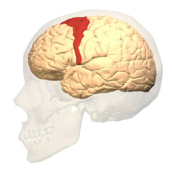 Brodmann areas 6. Premotor cortex.